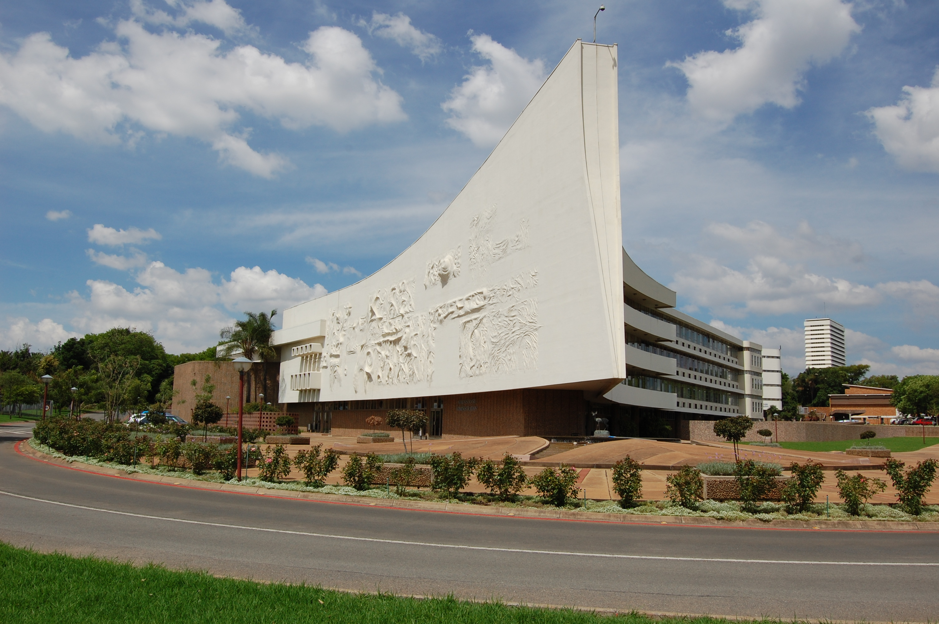 Administrative building University of Pretoria